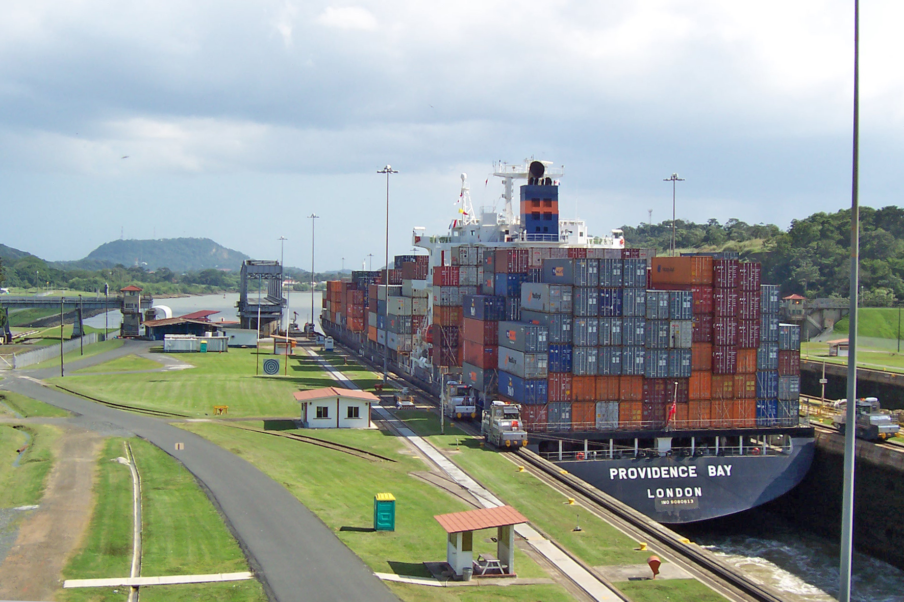 Container ship in Miraflores locks, Panama Canal